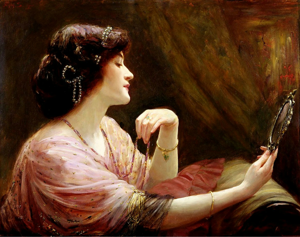 The Mirror